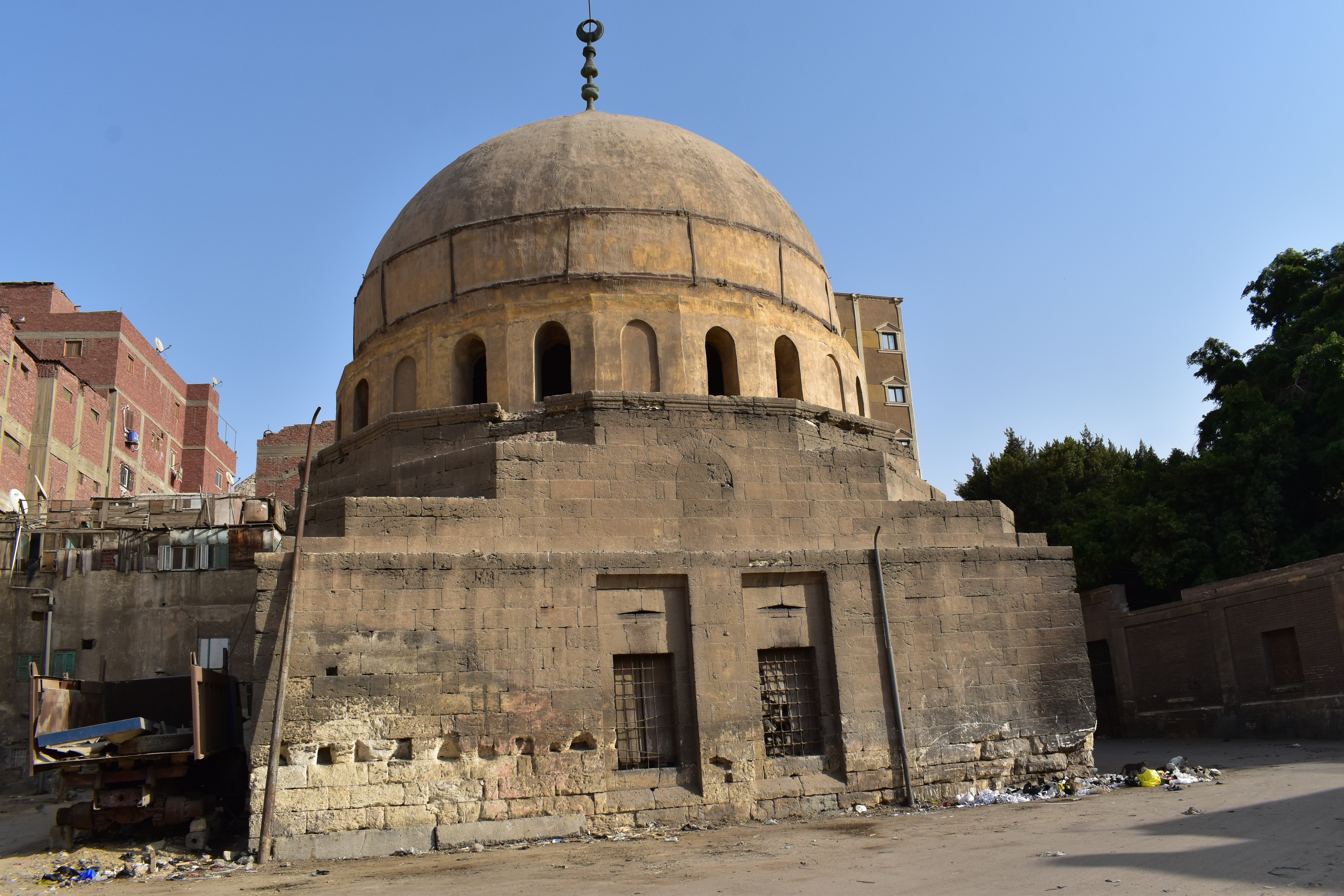 Al-Rifa'i tomb in Mamluks Cemetery, photo by Hatem Moushir